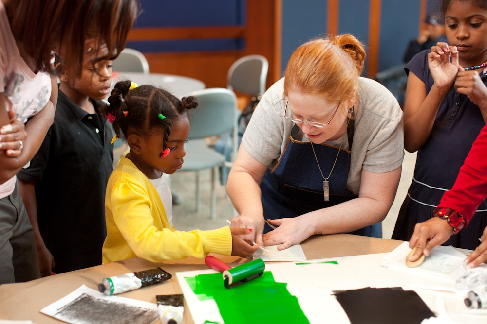 Photograph of artist Jennifer Schmitt, demonstrating printmaking at First Friday, 6 May 2011, at the Chemical Heritage Foundation, Philadelphia, PA, USA.